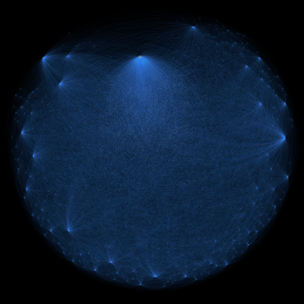 Created with a C++ impl of Louvain's method for the clustering, then ApacheFlink and Gephi. It visualizes the pld graph from: which contains roughly: ~40M vertices, ~600M edges, roughly 5 GB